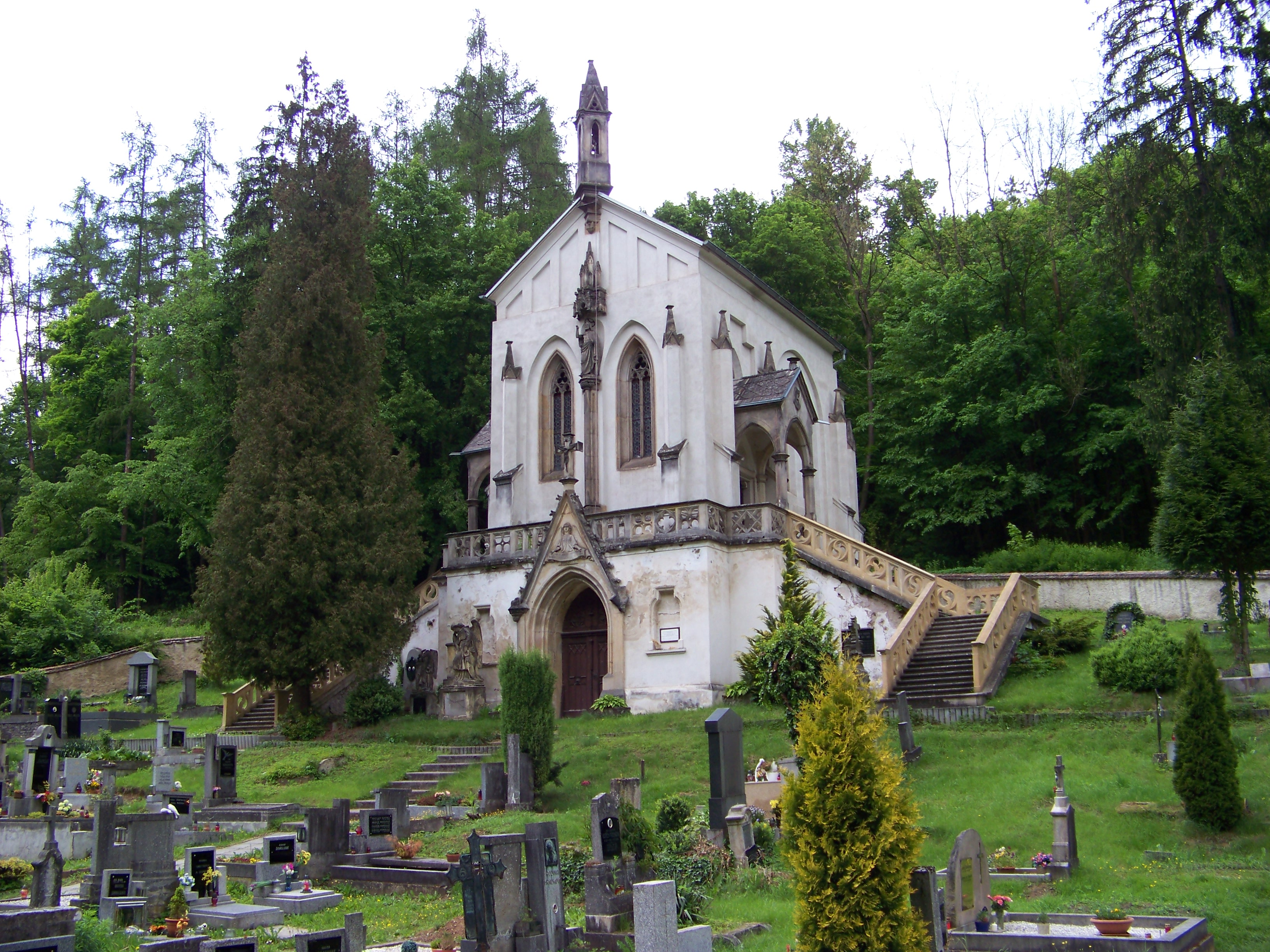 Svatý Jan pod Skalou, Beroun District, Central Bohemian Region, Czech Republic. Cemetery chapel of Saint Maximilian.